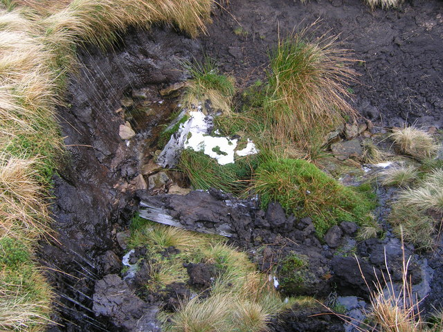 Nidd Head Spring The River Nidd emerges into daylight at the base of a small peak hagg, just to the left of the snow patch. Just below this is are the remains of a detached fringe of icicles, which took some mud with it as it fell.